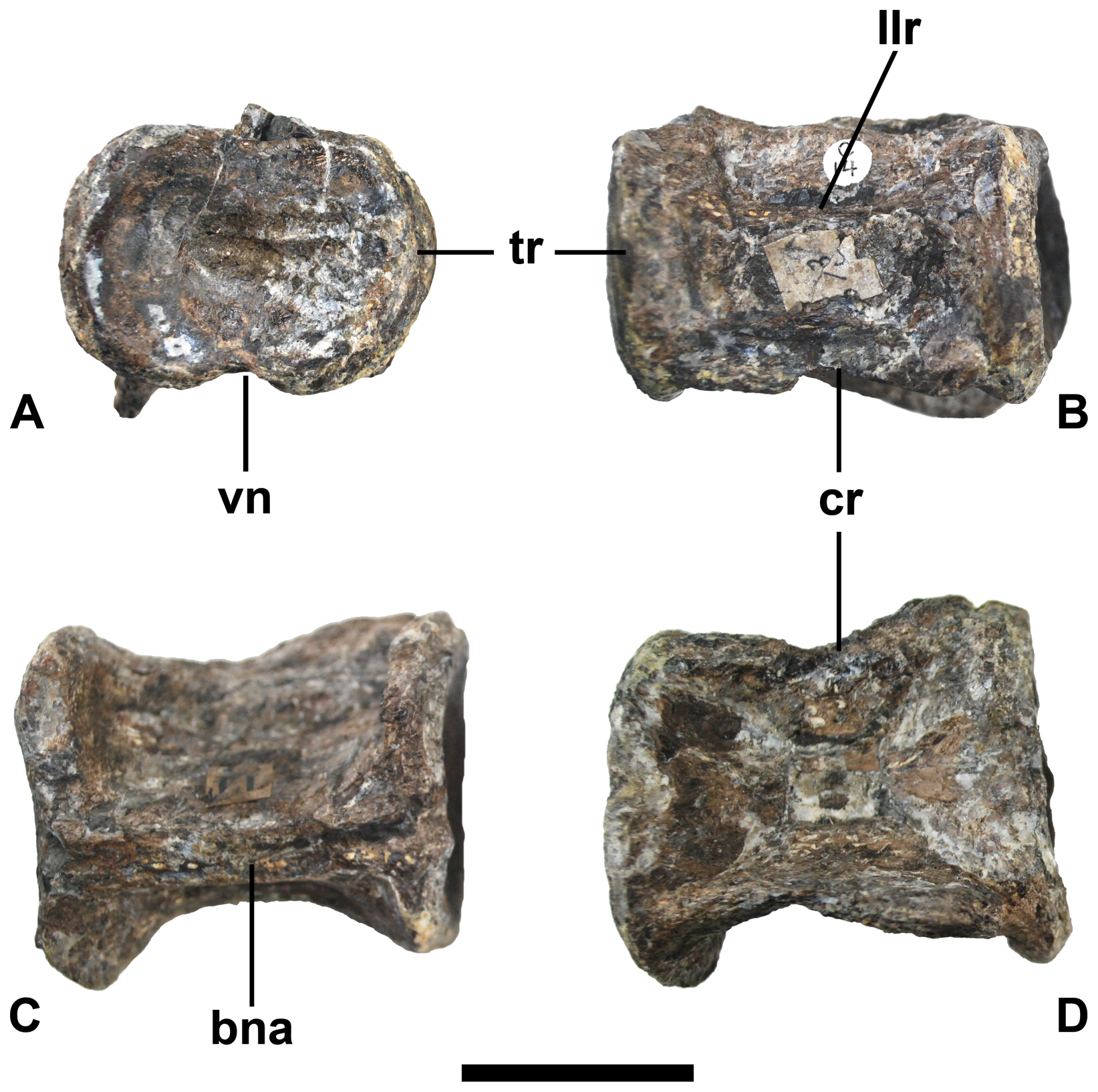 Craniad cervical vertebra of Elasmosaurus platyurus (ANSP 10081). A. articular, B. lateral, C. dorsal and D. ventral view. Abbreviations. bna = base of the neural arch, cr = cervical rib, llr = lateral longitudinal ridge, tr = thickened rim, vn = ventral notch. Scale bar equals 3 cm.